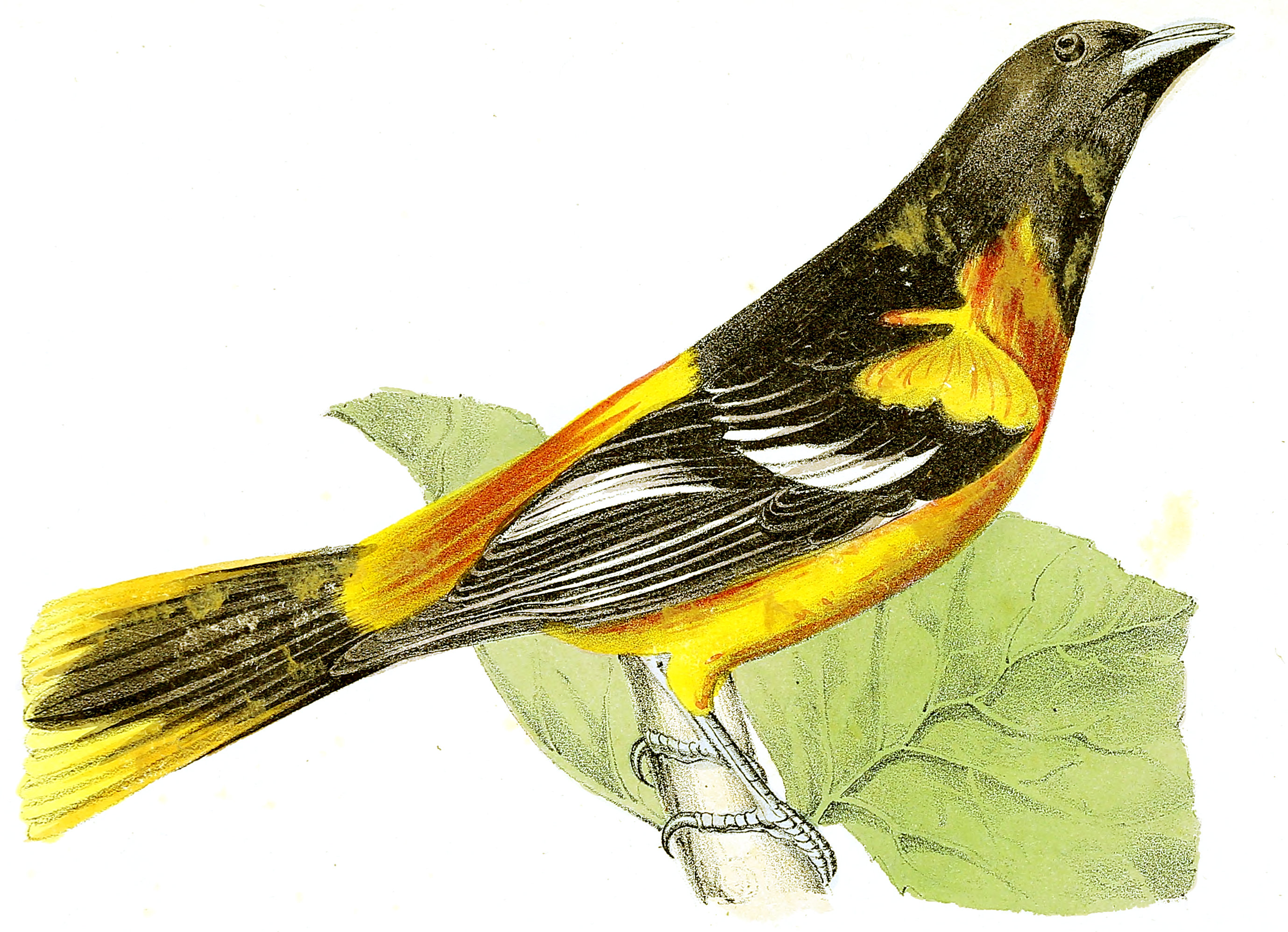 Watercolor of golden oriole (Icterus galbula) by Susan Fenimore Cooper, 1851.